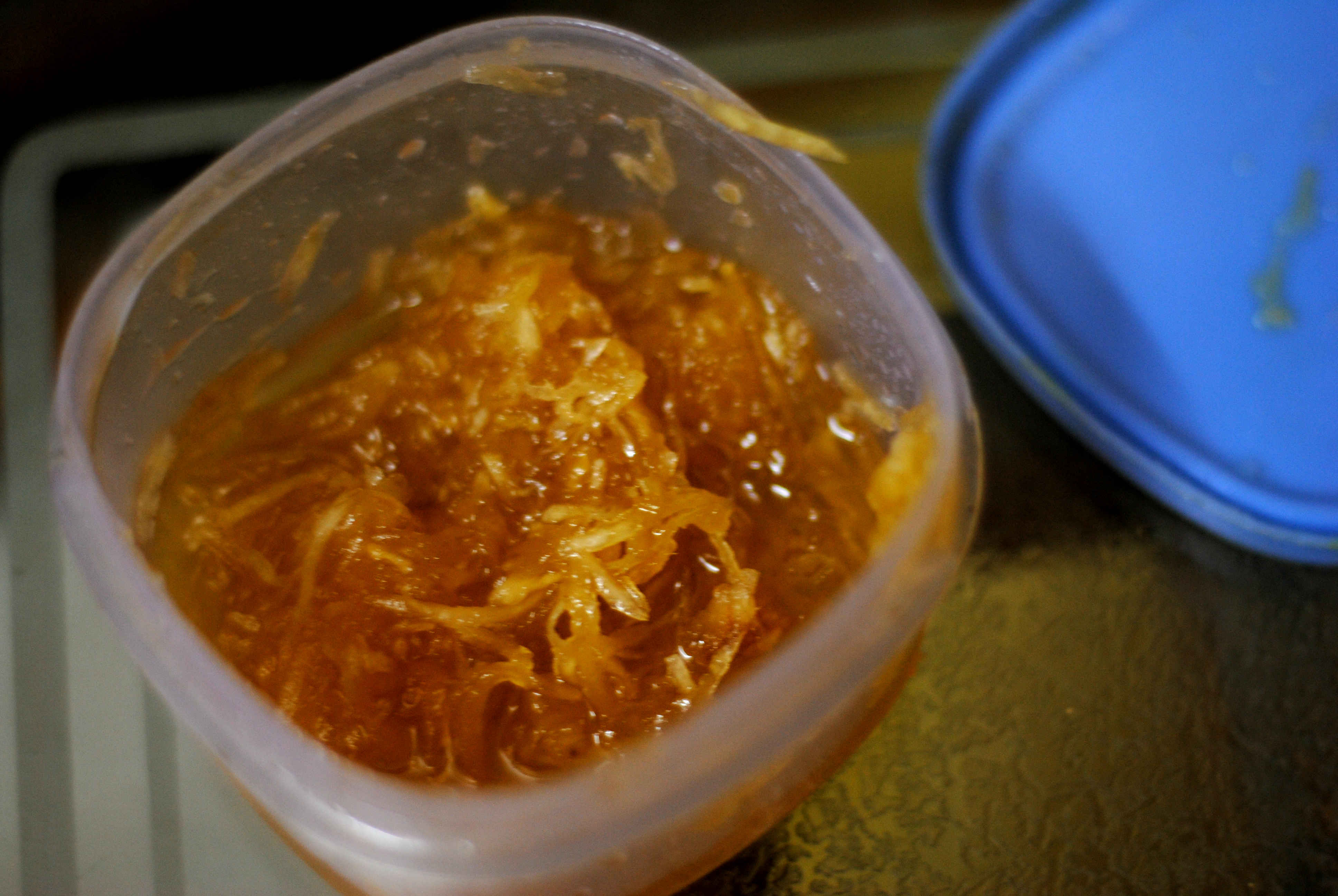 This is an image of Chhundo. It is a kind of grated mango pickle made and consumed in Gujarat, India.